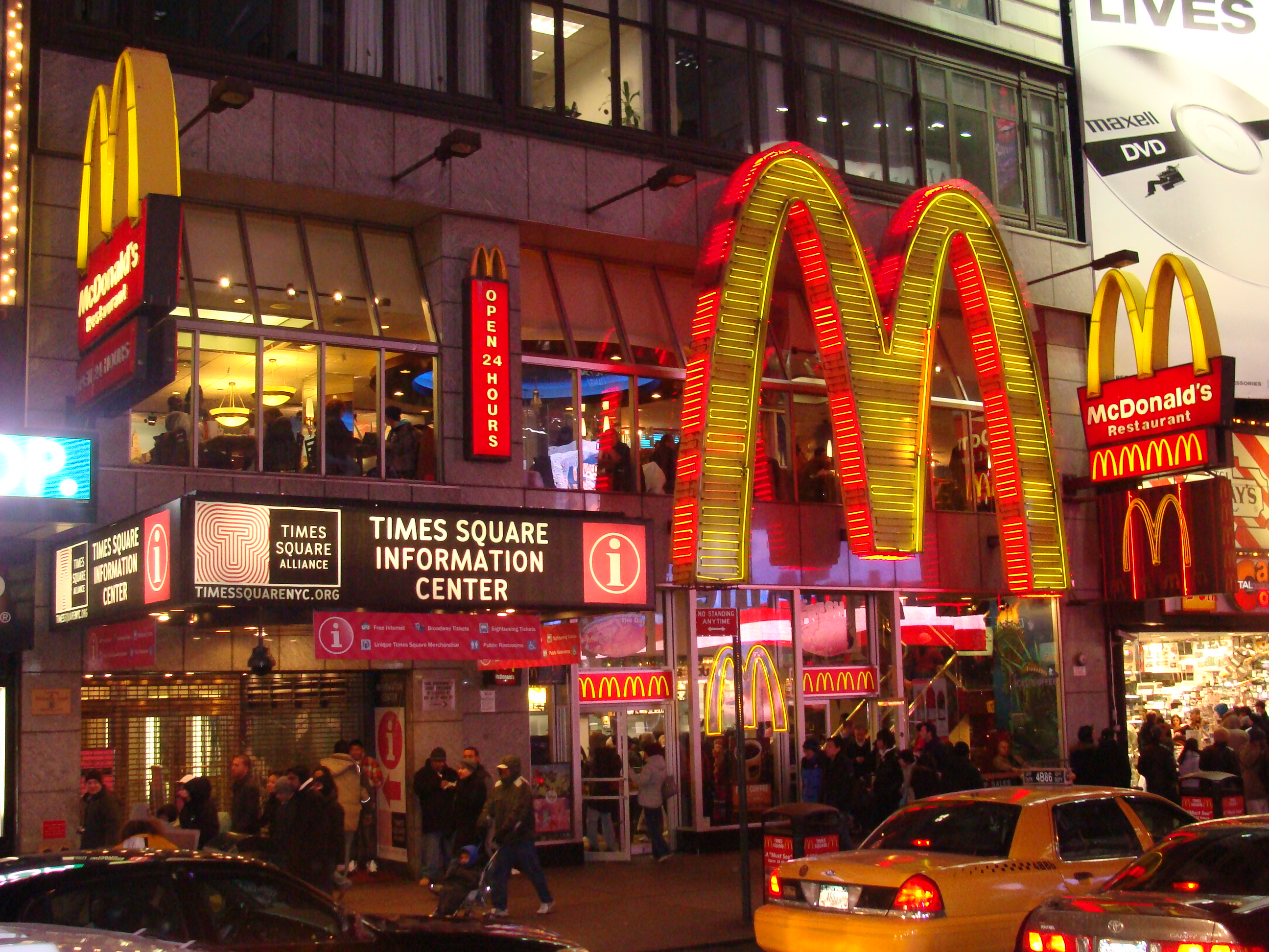 McDonald's storefront lit up on a 25 degree night in Times Square, NYC